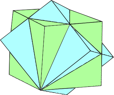 Twinned fluorite